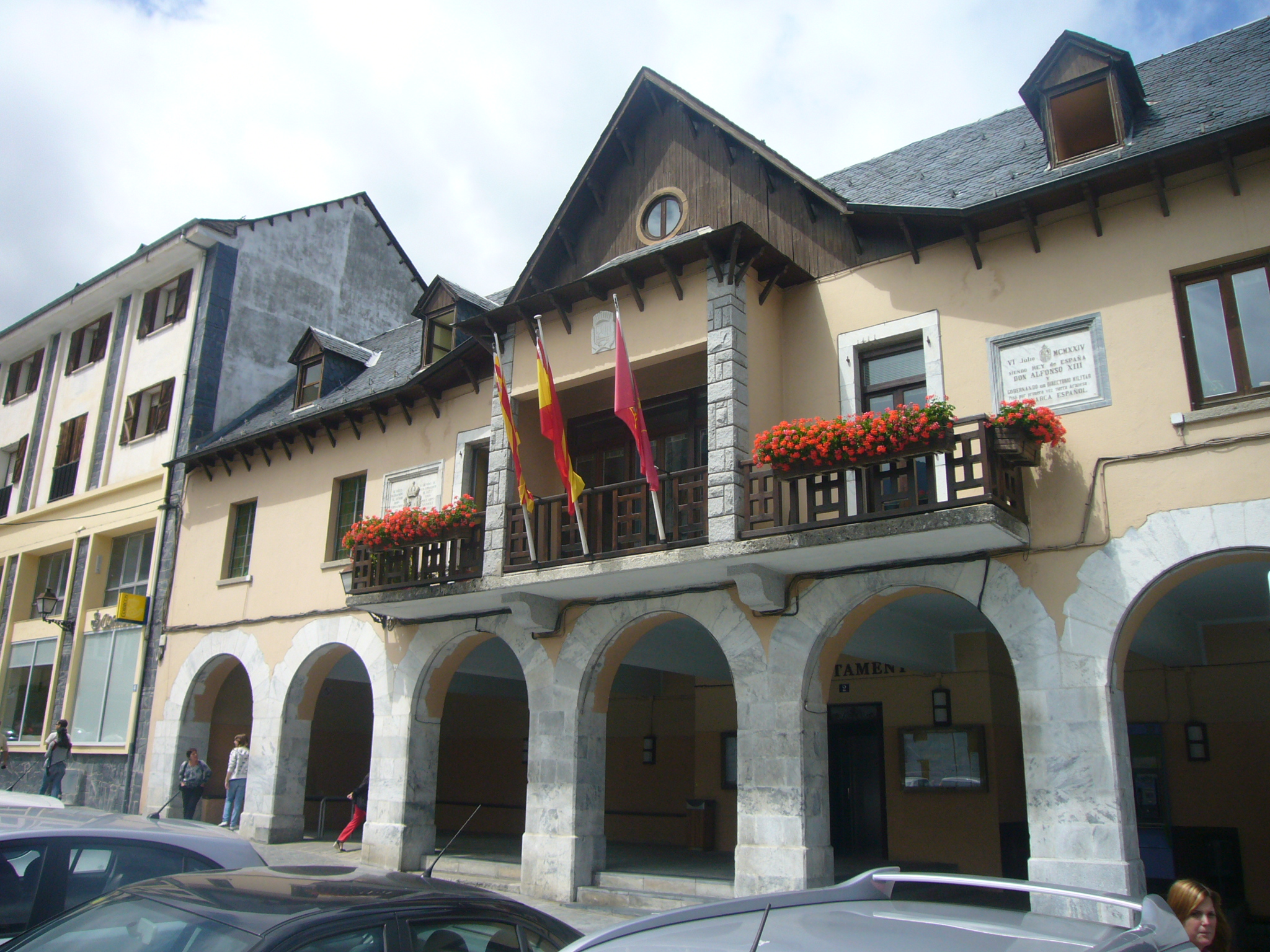 Vielha city hall (Vielha e Mijaran, Val d'Aran, Catalonia, Spain).